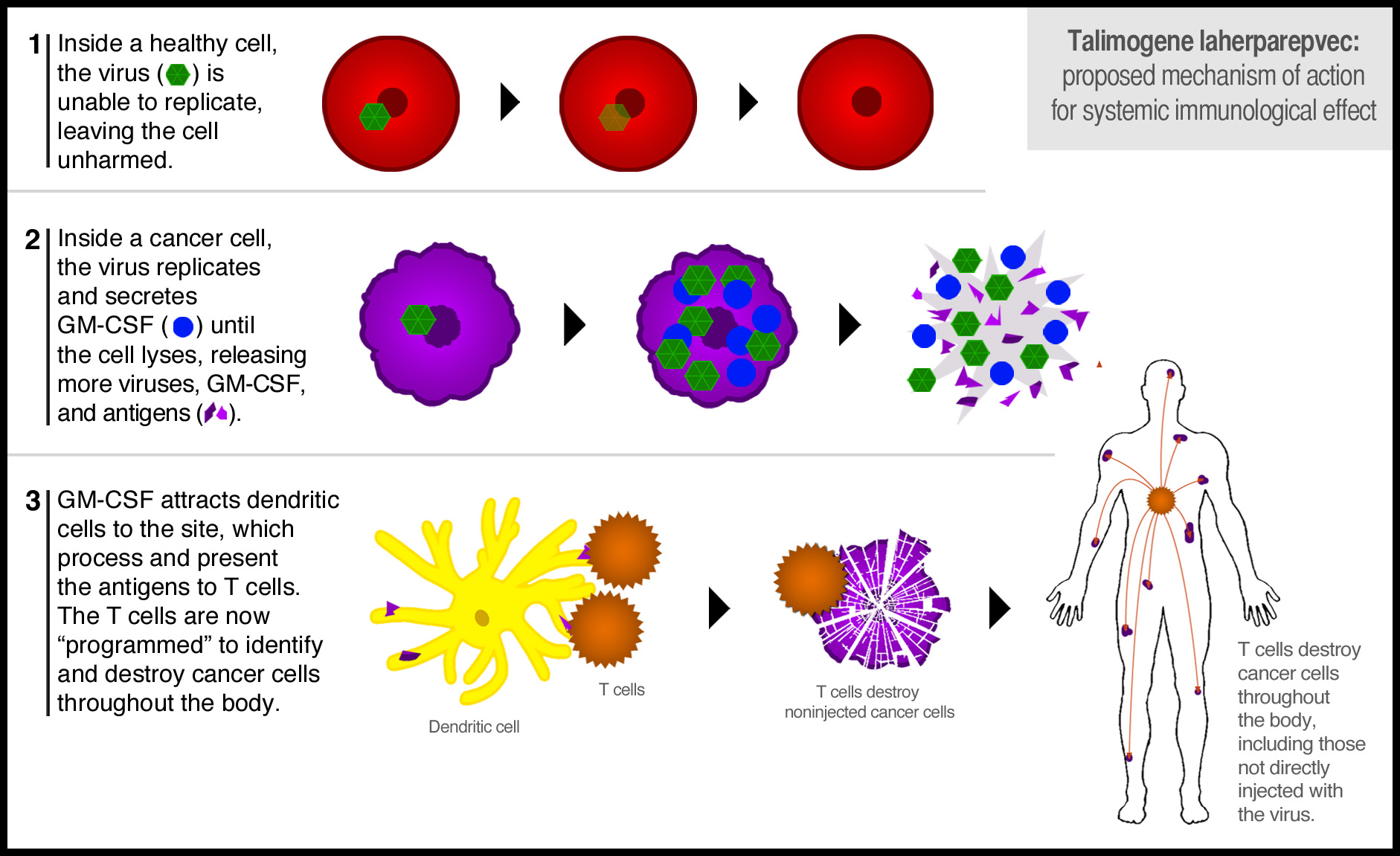 Explanation of the mechanism of action of talimogene laherparepvec, an oncolytic immunotherapy.